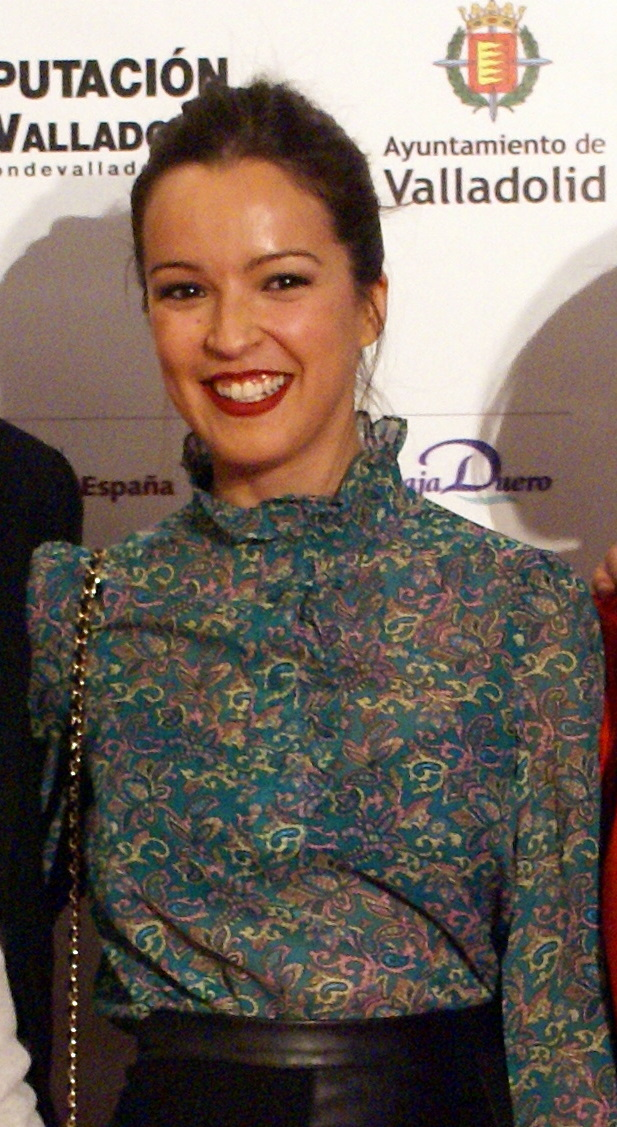 Verónica Sánchez, Spanish actress, at the Seminci 2011.